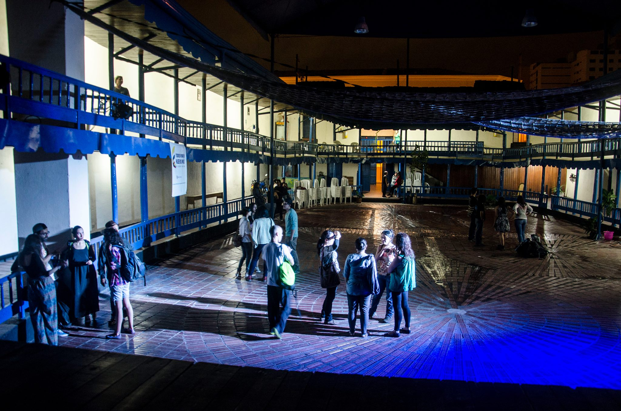 Vista interna del Coliseo desde las tablas del Teatro.